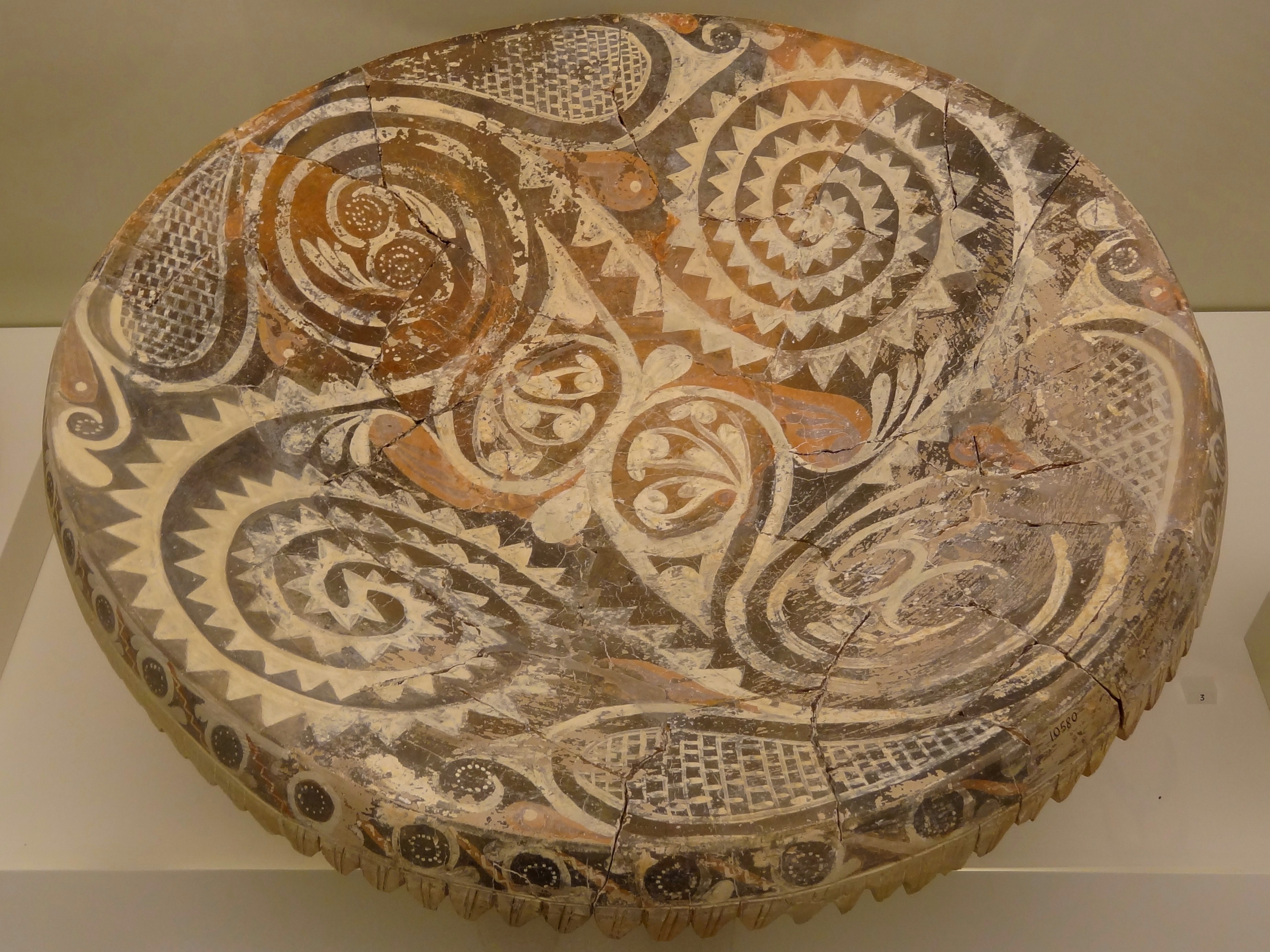 Clay fruitstand with lavish polychrome decoration of spirals, tassels and cross-hatching. The rim is decorated with cutout leaves. From Phaistos, Old-Palace period (1800-1700 BC). Exhibited in Heraklion Archaeological Museum, Crete, Greece.